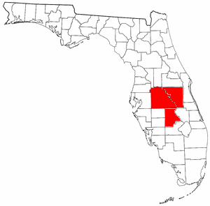 Modified version of File:Map of Florida highlighting Polk County.png, showing the distribution of the bluetail mole skink.